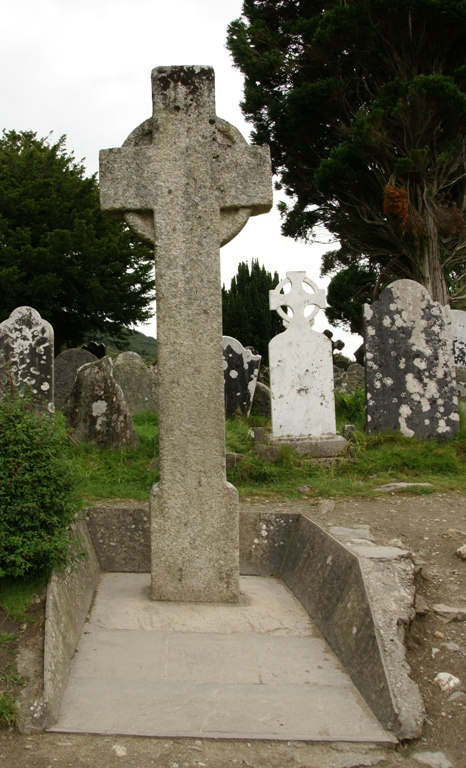 Glendalough (Ireland), St. Kevin's Cross